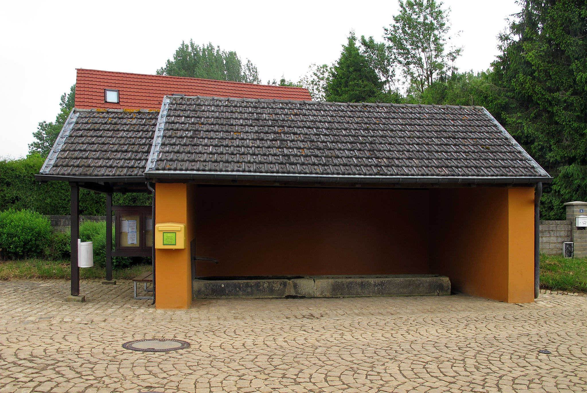 Washing well in Pissange, Luxembourg.